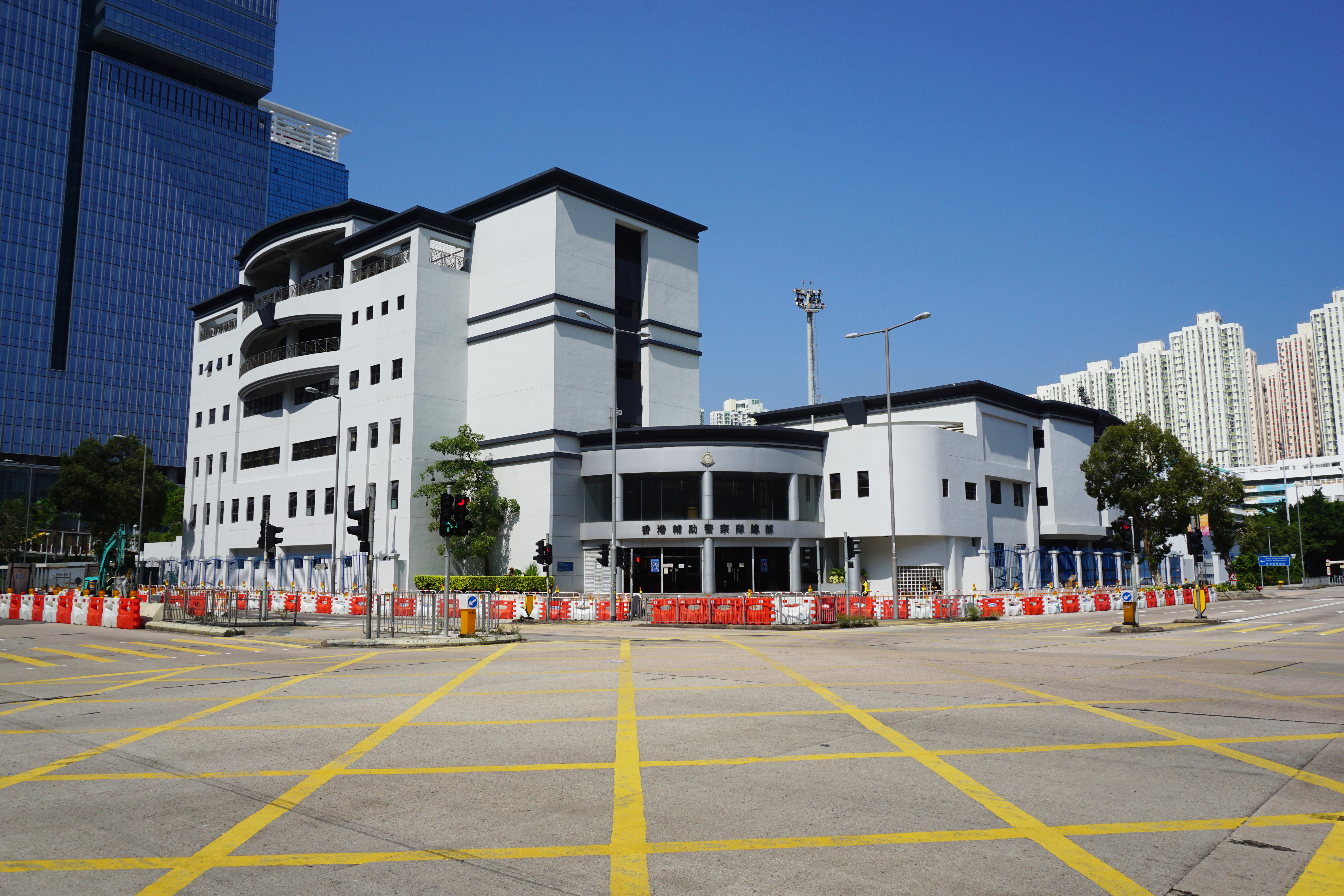 Auxiliary Police Headquarters in Kowloon Bay, Hong Kong.